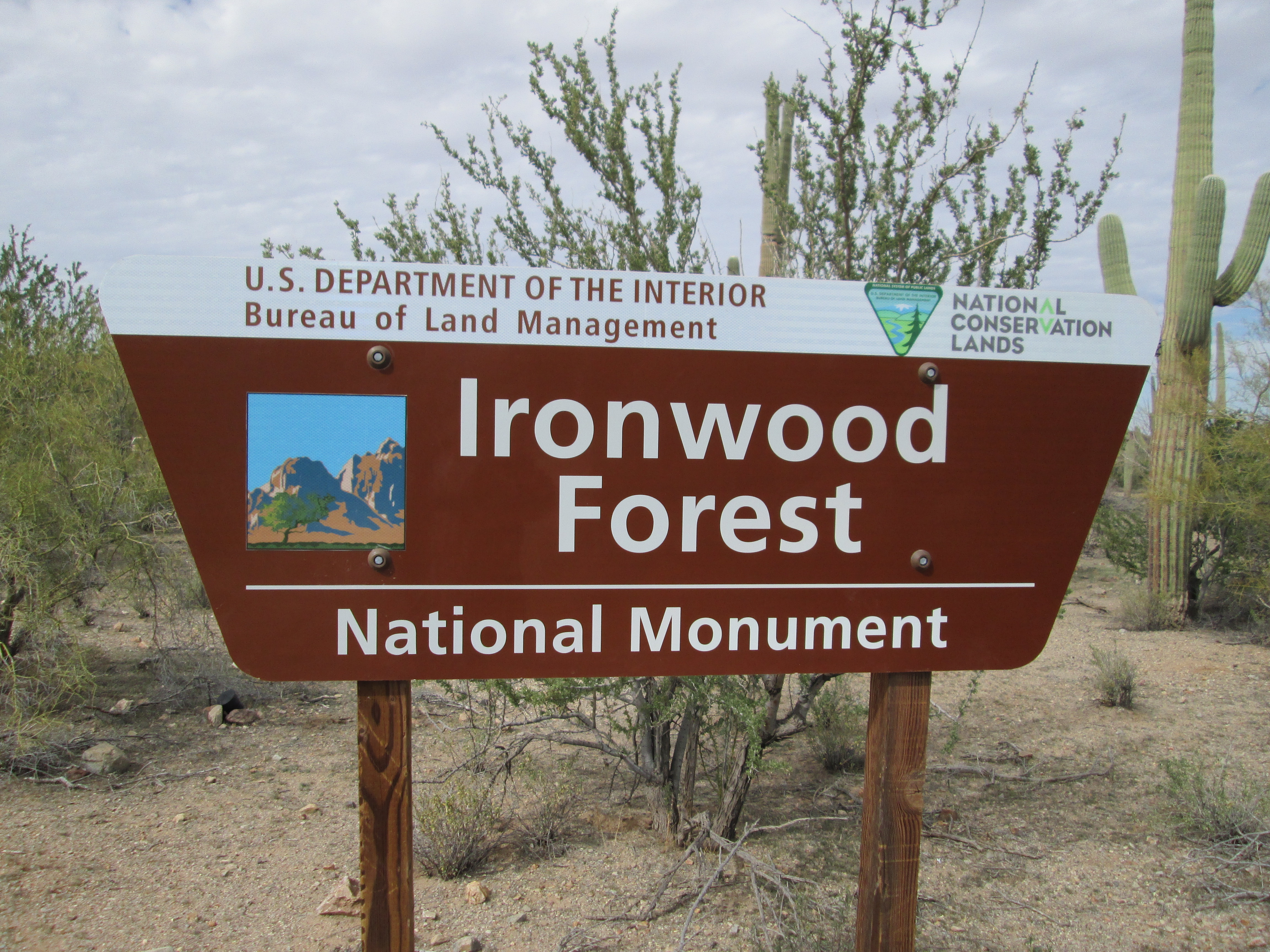 The Ironwood Forest National Monument sign — at the historic Silverbell Cemetery, in Pima County, Arizona. February 23, 2014